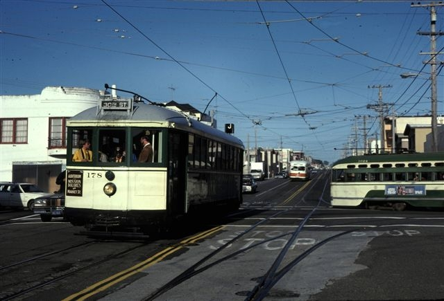 Streetcar 178 at 46th and Taraval on an excursion in April 1982